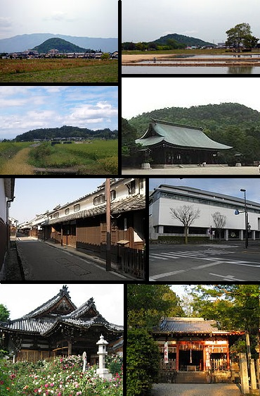 Kashihara Nara montage